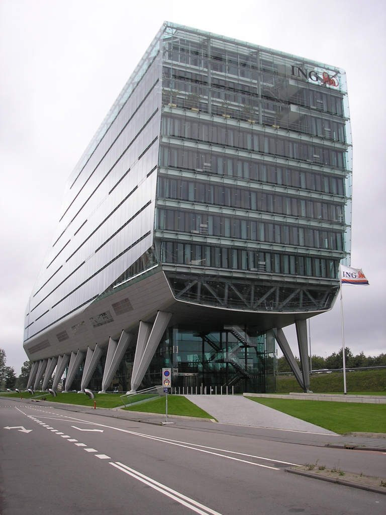 ING House. Corparate headquarters of the Dutch multinational financial corporation ING. Located in Amsterdam on the Zuidas development area with many international corporate headquarters. Location: Amstelveenseweg 500, Amsterdam, Netherlands (alongside the A10 highway Ringweg-Zuid) Keywords: The Shoe --- nl: ING House. Hoofdkantoor van de ING op de Zuidas in Amsterdam. Locatie: Amstelveenseweg 500, Amsterdam, NL (pal naast de A10 Ringweg-Zuid) Trefwoorden: De schoen